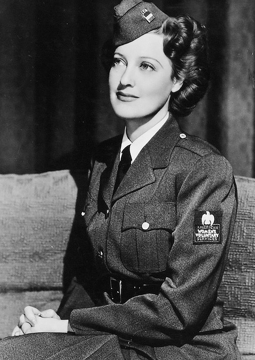 Jeanette MacDonald in American Women's Volunteer Service uniform